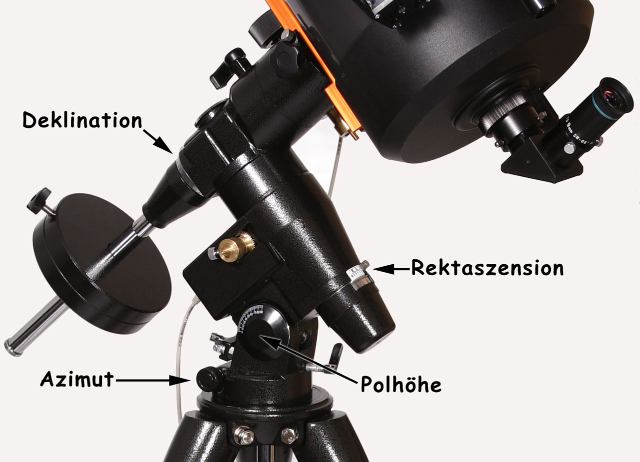 The four degrees of freedom of a telescope.